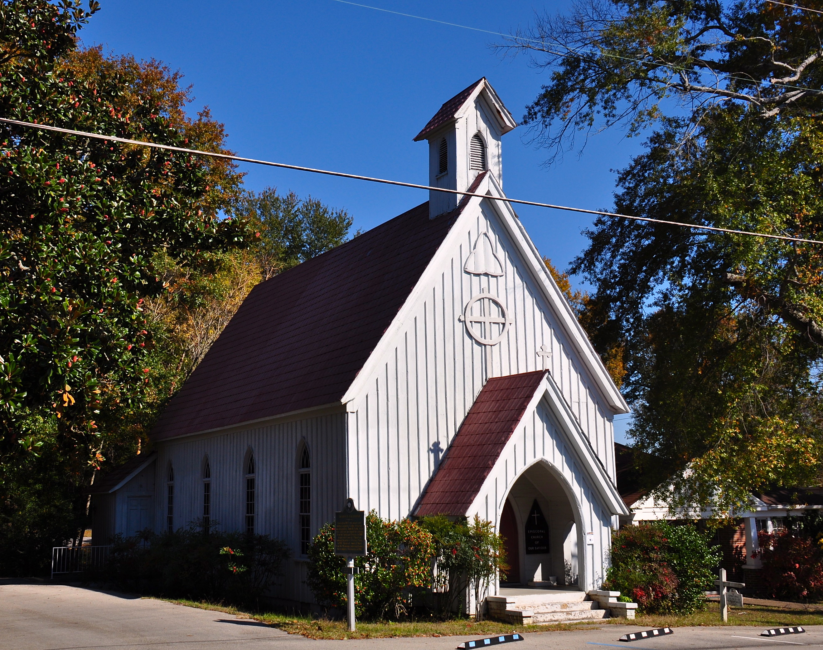 The Church of Our Saviour is an historic Carpenter Gothic style Episcopal Church located in Iuka, Mississippi. It was listed on the National Register of Historic Places in 1991.